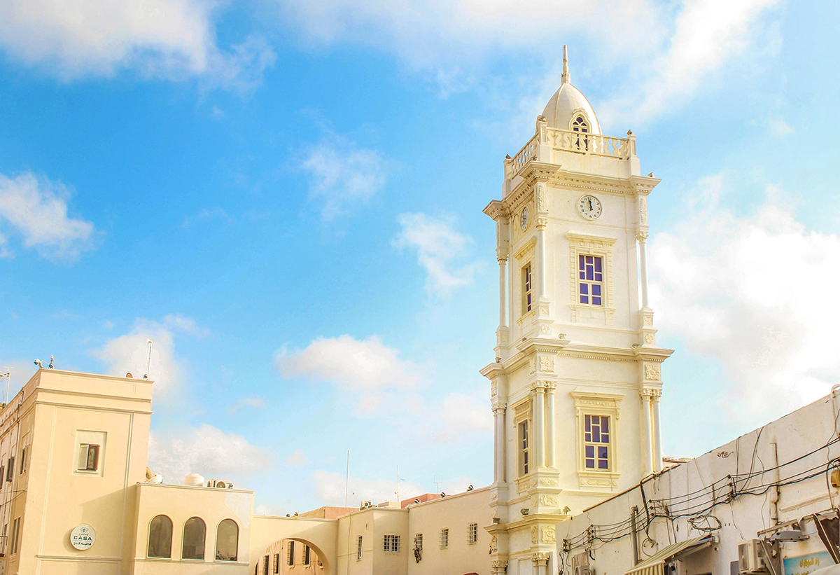 Clock Tower_Tripoli برج الساعة العثماني بالمدينة القديمة _طرابلس_ليبيا